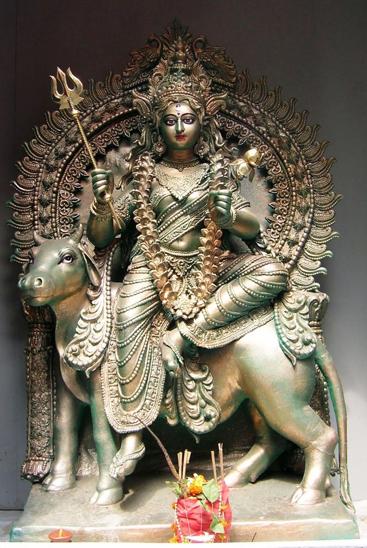 Devi Shailaputri, Sanghasri, Kalighat, Kolkata, 2010.